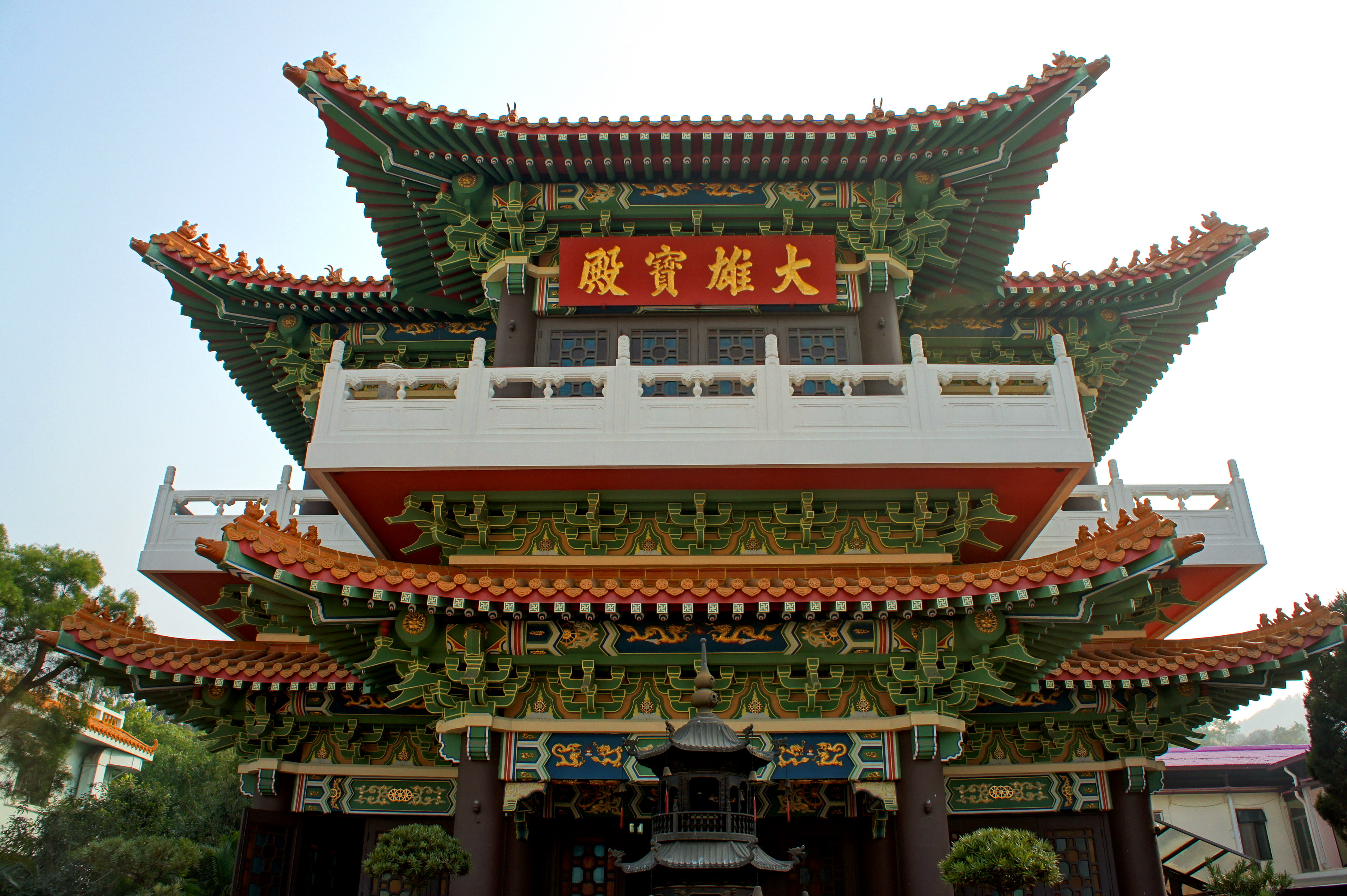 Hong Kong Kun Chung Temple, Fanling, New Territories, Hong Kong.